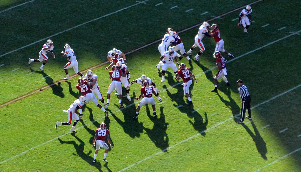 The Alabama Crimson Tide on defense in motion after an Auburn Tigers snap in the 2012 Iron Bowl at Bryant–Denny Stadium.